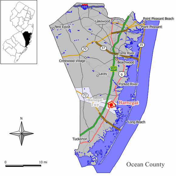 Source: Jim Irwin Original work by Jim Irwin, December 2005.